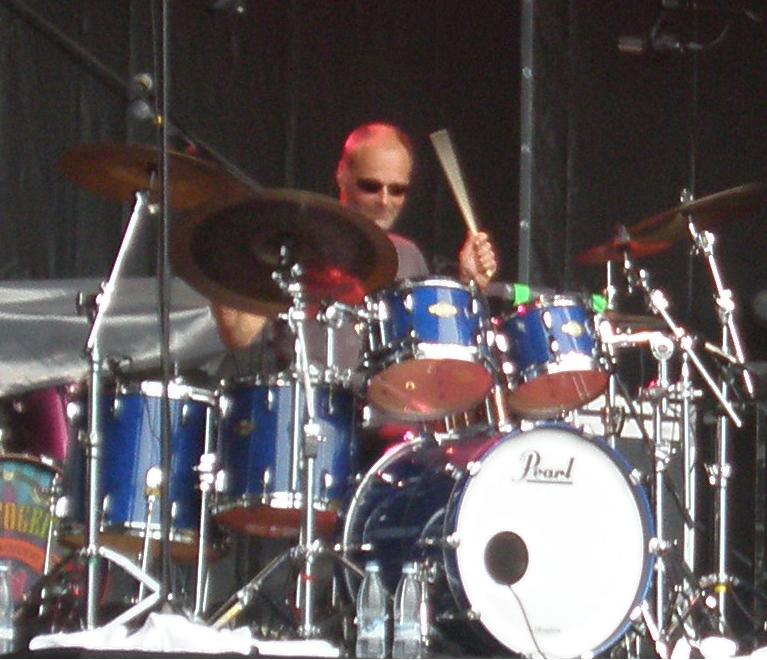 Aku Syrjä, drummer of Eppu Normaali, playing at Raatti Stadium in Oulu, Finland in July 2012.